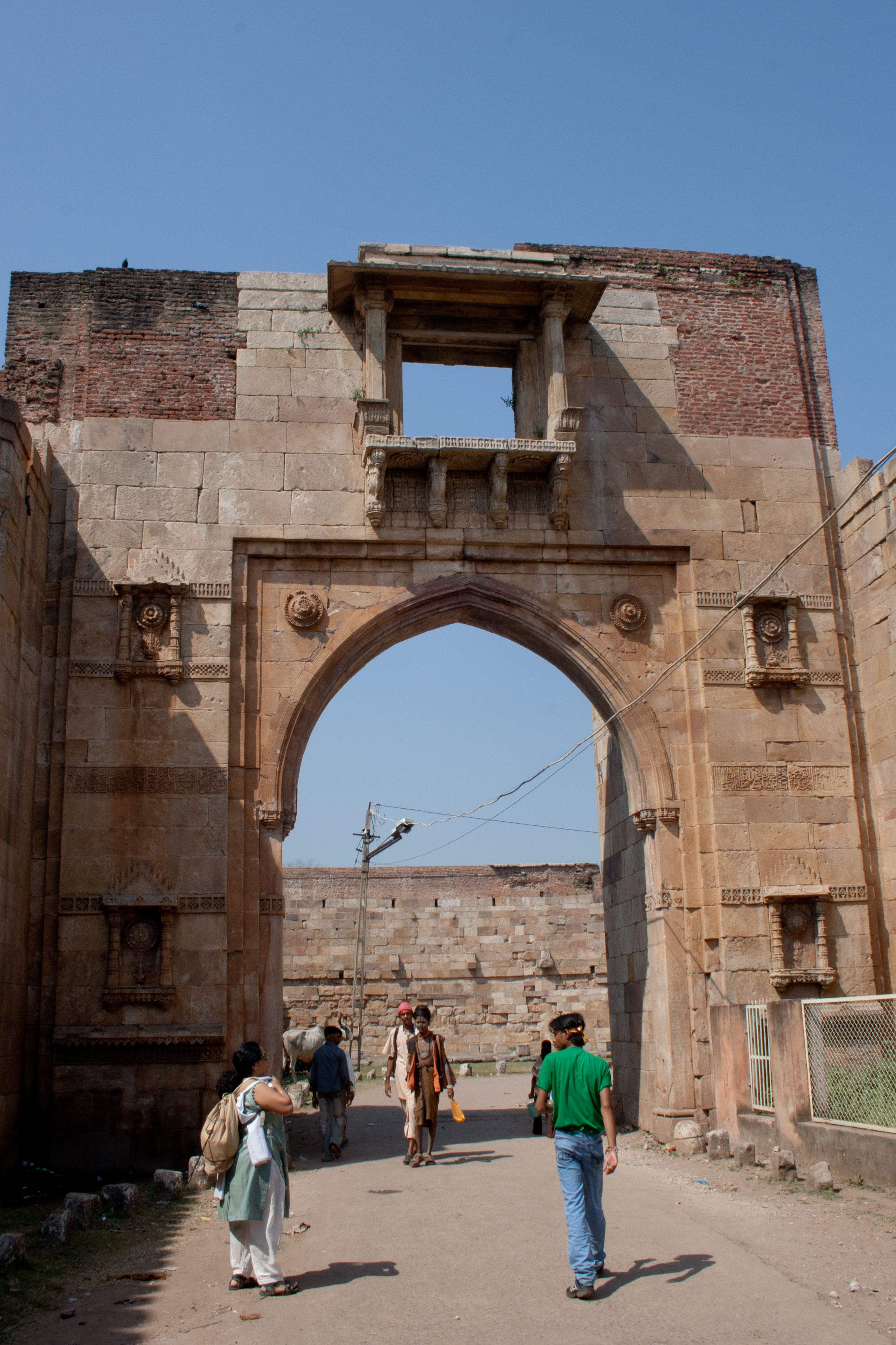 The eastern gate to the walled citadel of Champaner